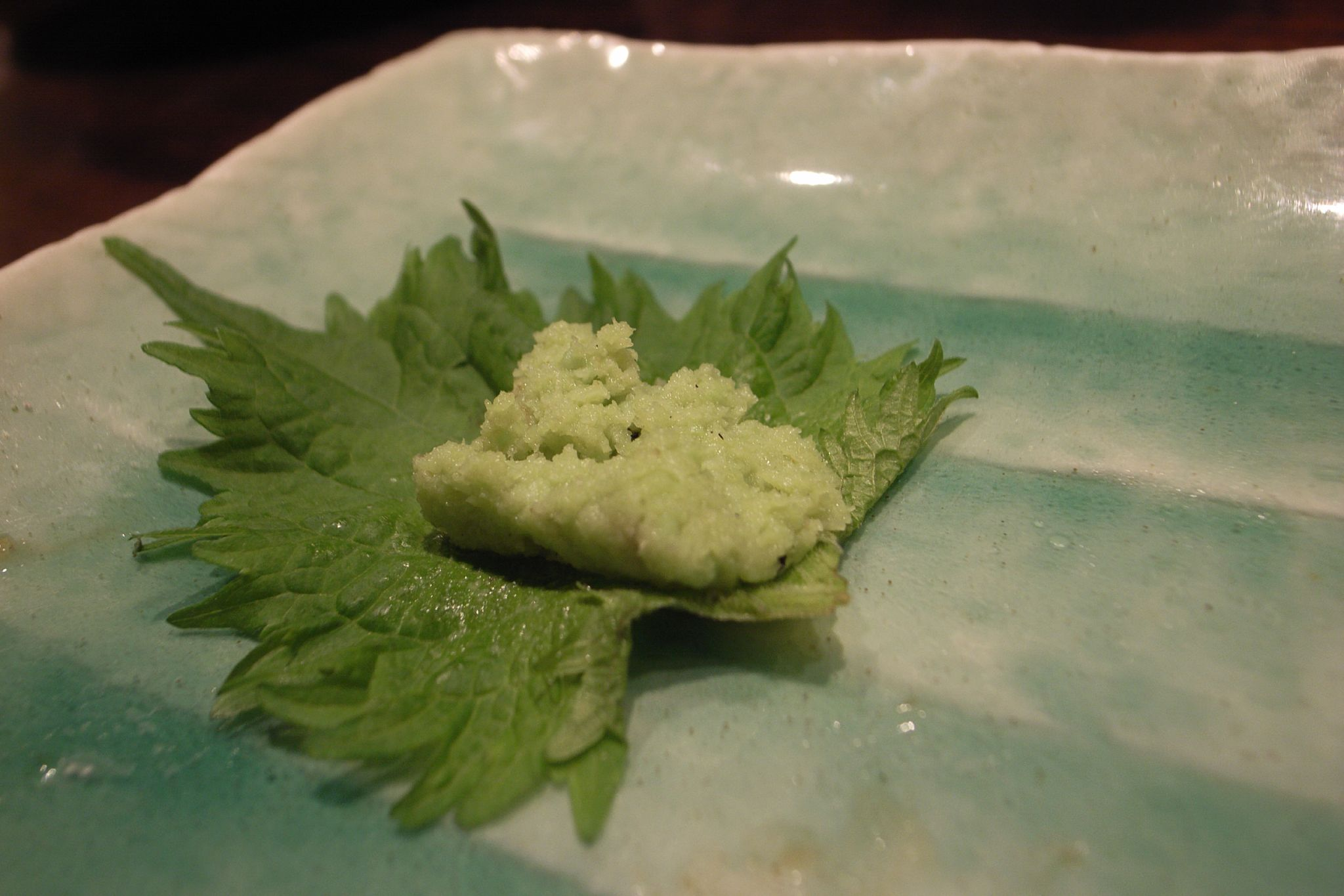 Wasabi paste on green leaves.